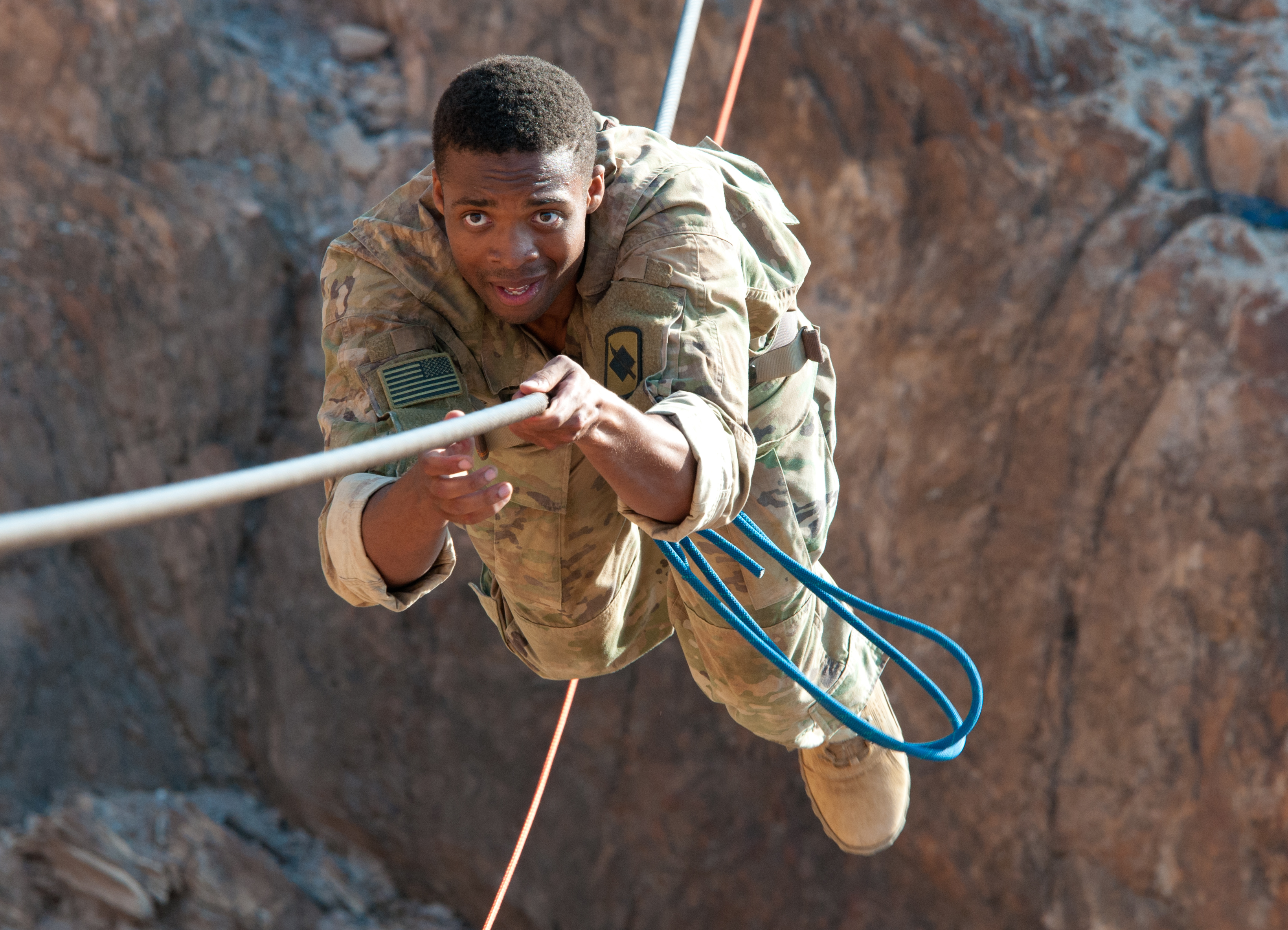 U.S. Army 2nd Lt. Kre McMahon, of the Arkansas National Guard's 39th Infantry Brigade Combat Team, completes the mountain obstacle portion of the French Desert Commando Course in Djibouti, Africa, April 8, 2017. (U.S. Army National Guard photo by Spc. Victoria Eckert)